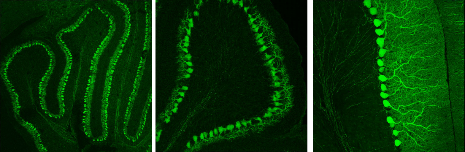 Adapted and modified from the "GENSAT (Gene Expression Nervous System Atlas)"